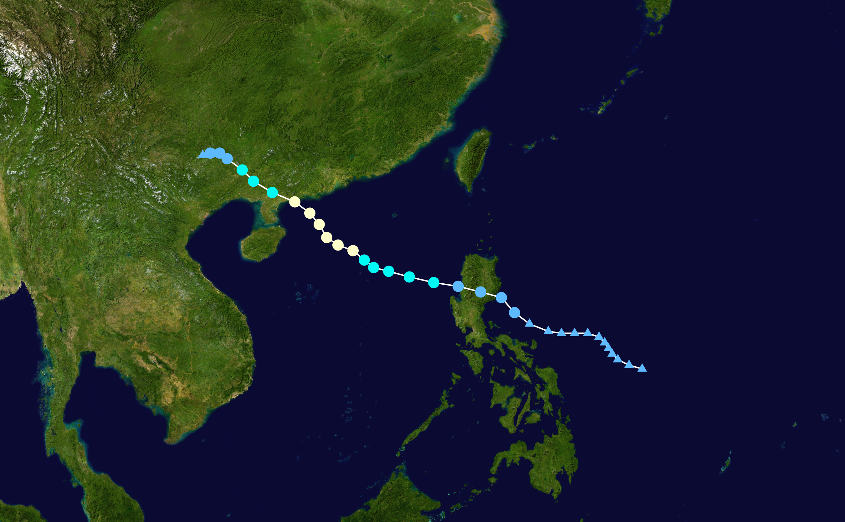 Typhoon Prapiroon (2006) track. Uses the color scheme from the Saffir-Simpson Hurricane Scale.